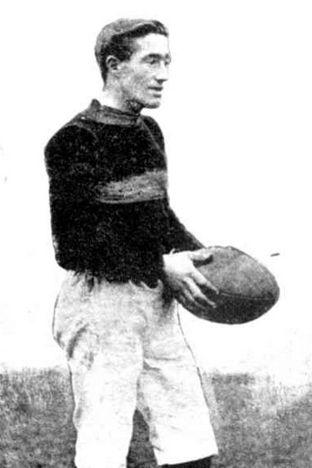 Photograph of George Gibson from the 1910 Weekly Times Victorian Footballer Postcard Series